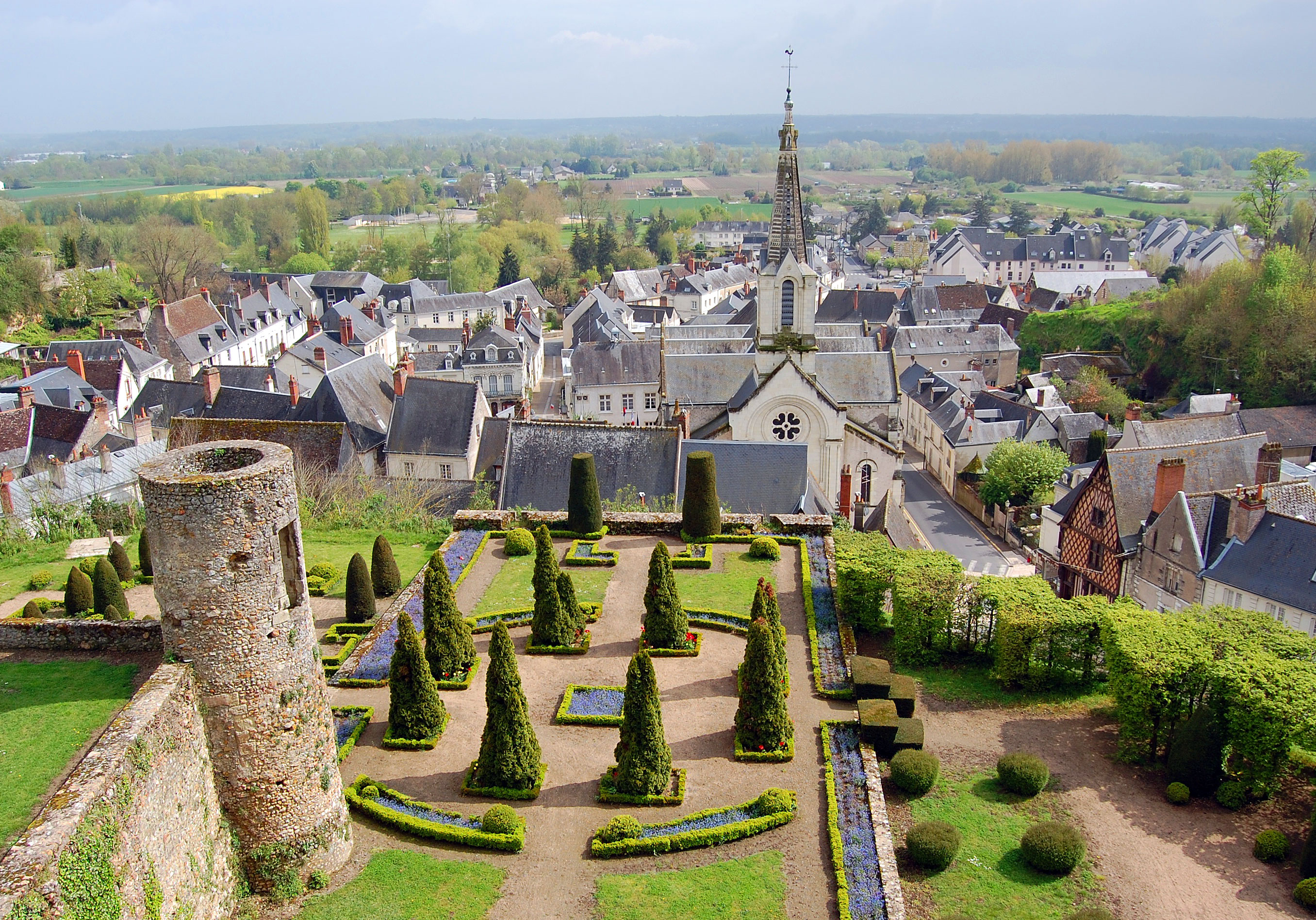 Luynes town from the castle